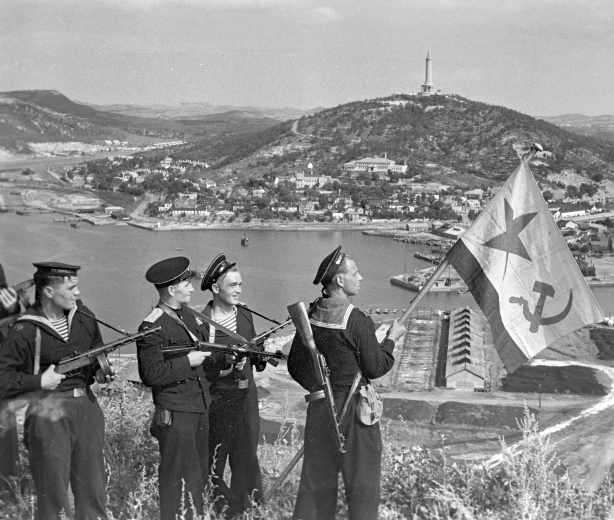 “Hoisting the banner in Port-Artur. WWII (1941-1945)”. Pacific Fleet marines are hoisting the banner in Port-Artur. WWII (1941-1945). Photo made on October 1, 1945.